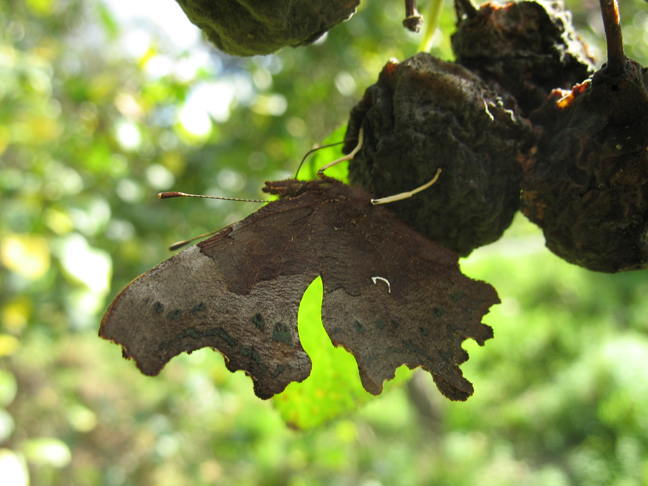 A Comma Butterfly (Polygonia c-album) in Shropshire, England. Photo taken by Chris Bayley with a Canon Powershot A610. This angle shows the underwing, and the namesake white comma.